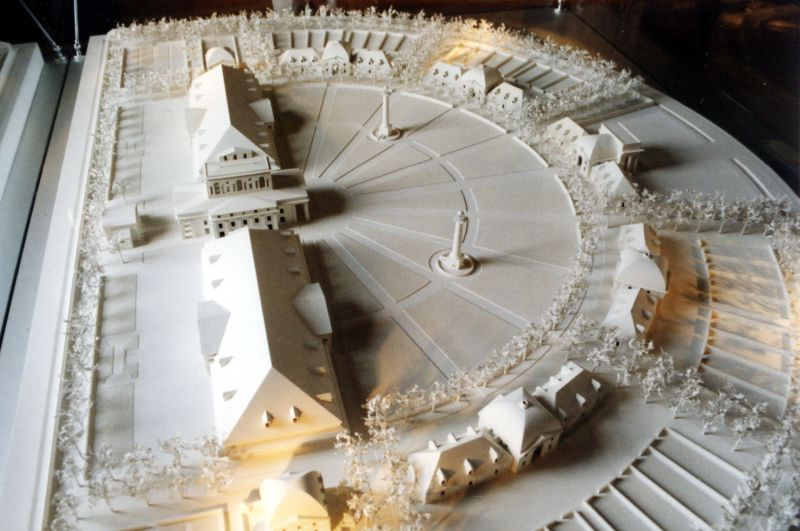 Royal Saltworks at Arc-et-Senans, France